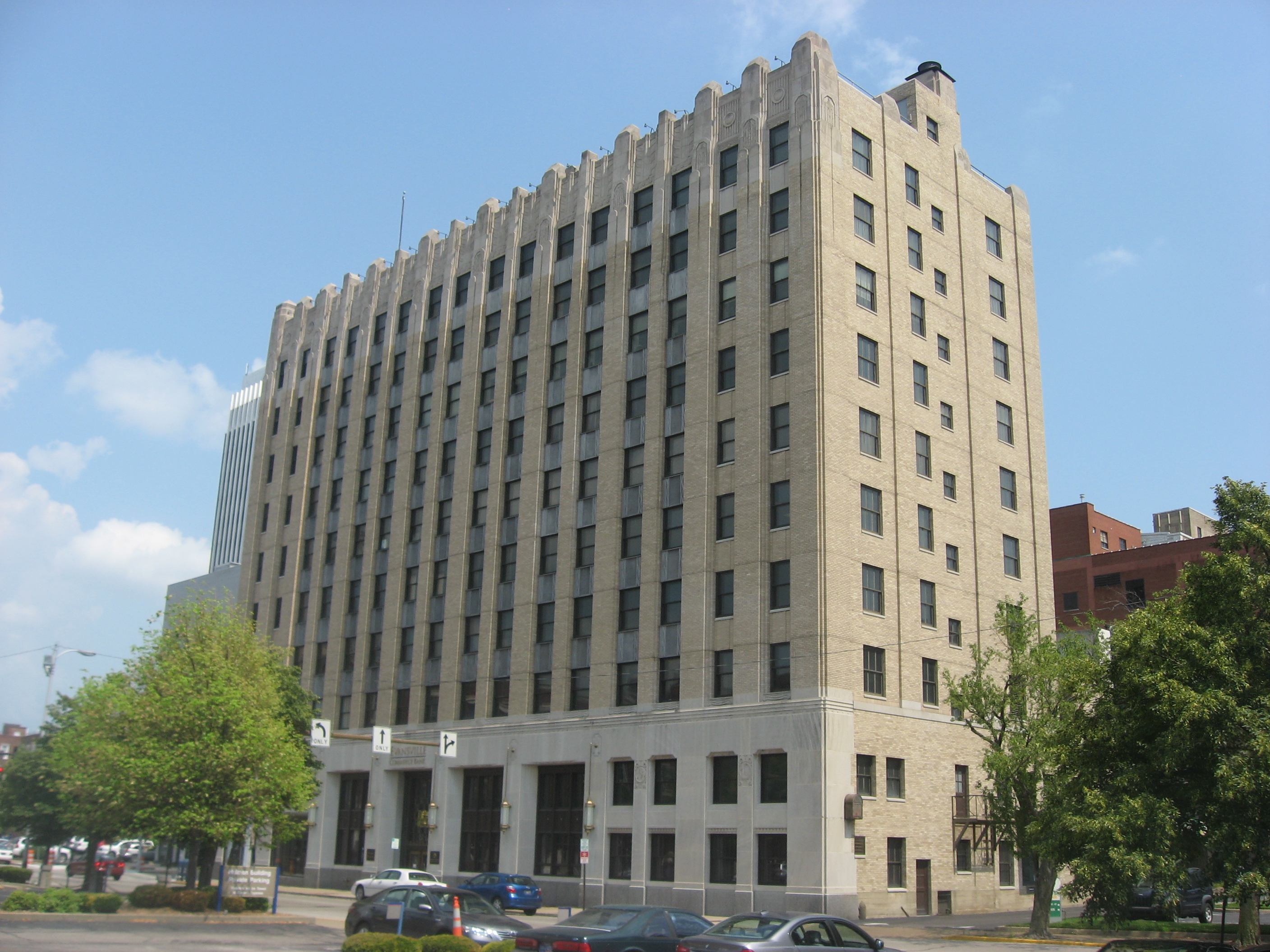 Northwestern side and rear of the Central Union Bank, located at 20 NW. Fourth Street in Evansville, Indiana, United States. Built in 1929 and now the headquarters of the Evansville Commerce Bank, it is listed on the National Register of Historic Places.